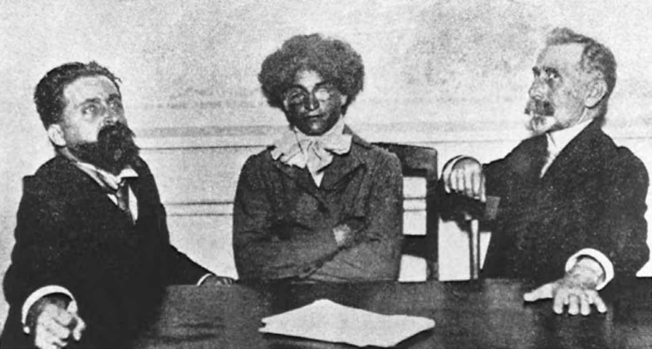 Carlo Mirabelli (left), Dr. Carlos de Castro (right) and the materialized spirit of deceased poet Giuseppe Parini